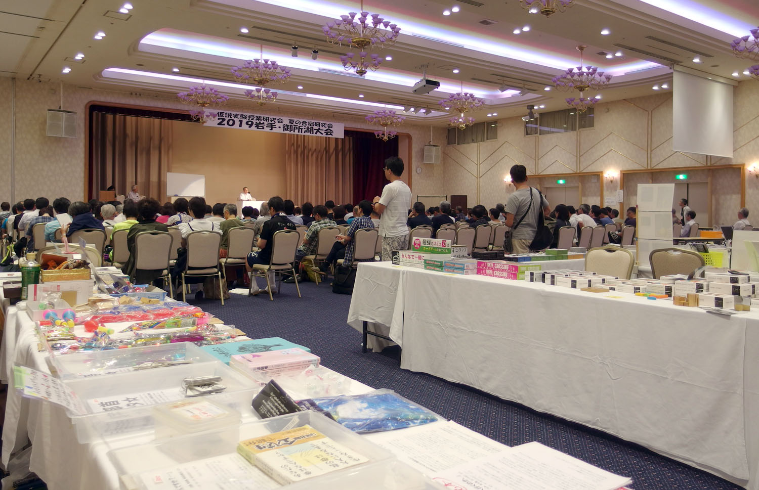 2019年7月29～31日仮説実験授業研究会の全国合宿研究会・岩手の会場の様子。全体会講演と売り場の様子。